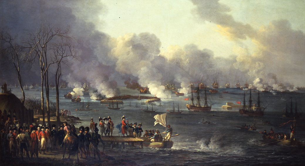 Misleading representation of the fhe finishing phase of Slaget på Reden painted by Christian August Lorentzen. Crown Prince Frederik standing at the headland at Kastellet surrounded by his staff at 3 o'clock in the afternoon when the boat with Lord Nelson's messangers arrives. The sunlight hits the white flag in the centre of the picture. The national myth - that it was the British who had to ask for a cease of fire - is already in place.